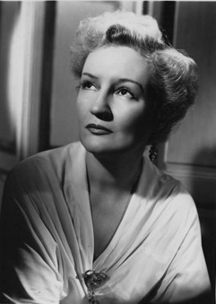 Maruja Gil Quesada-actriz argentina